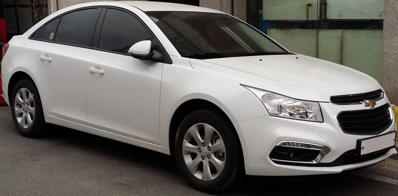 Chevrolet Cruze